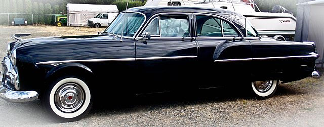 See more 300s at Collector Car Ads